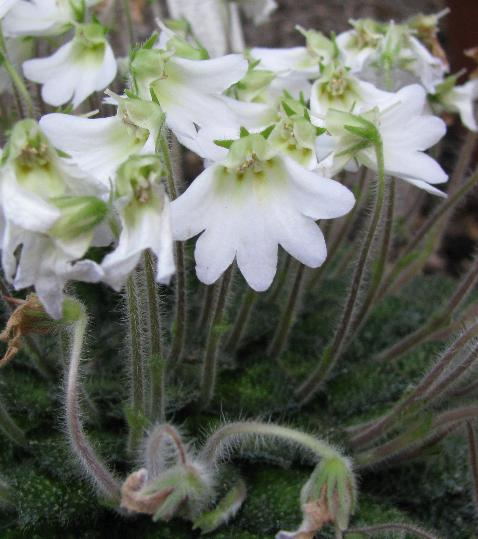 Petrocosmea rosettifolia, Botanical garden Heidelberg